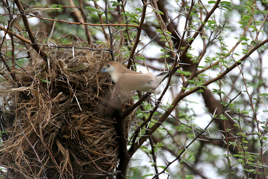 Indian Silverbill or White-throated Munia Lonchura malabarica - Hindi: Charchara, Charga, Charakka, Pidda, Pun: Chittgali munia, Ben: Piduri, Sar munia, Guj: Pavai munia, Munia, Tapushiyu, Sweth kanth tapushiyu, Mar: Malmunia, Ta: Nellu-kuruvi, Te: Jinuwayi, Mal: Vayalatta, Kan: Bili kantada munia, Sinh: Wee-kurulla- at Pocharam lake, Andhra Pradesh, India.